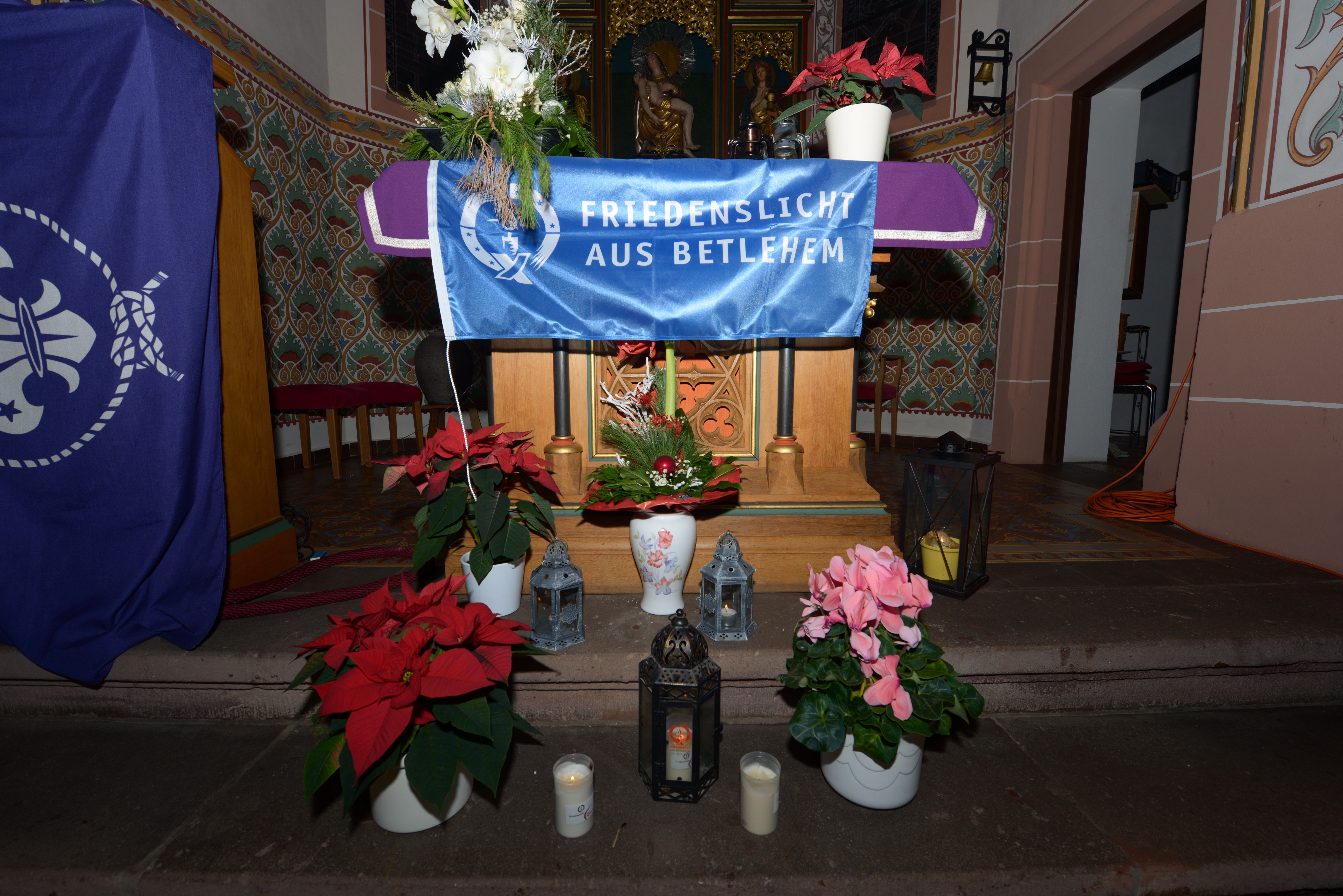 Peace Light of Bethlehem in Illingen, Saarland, Germany (2017).